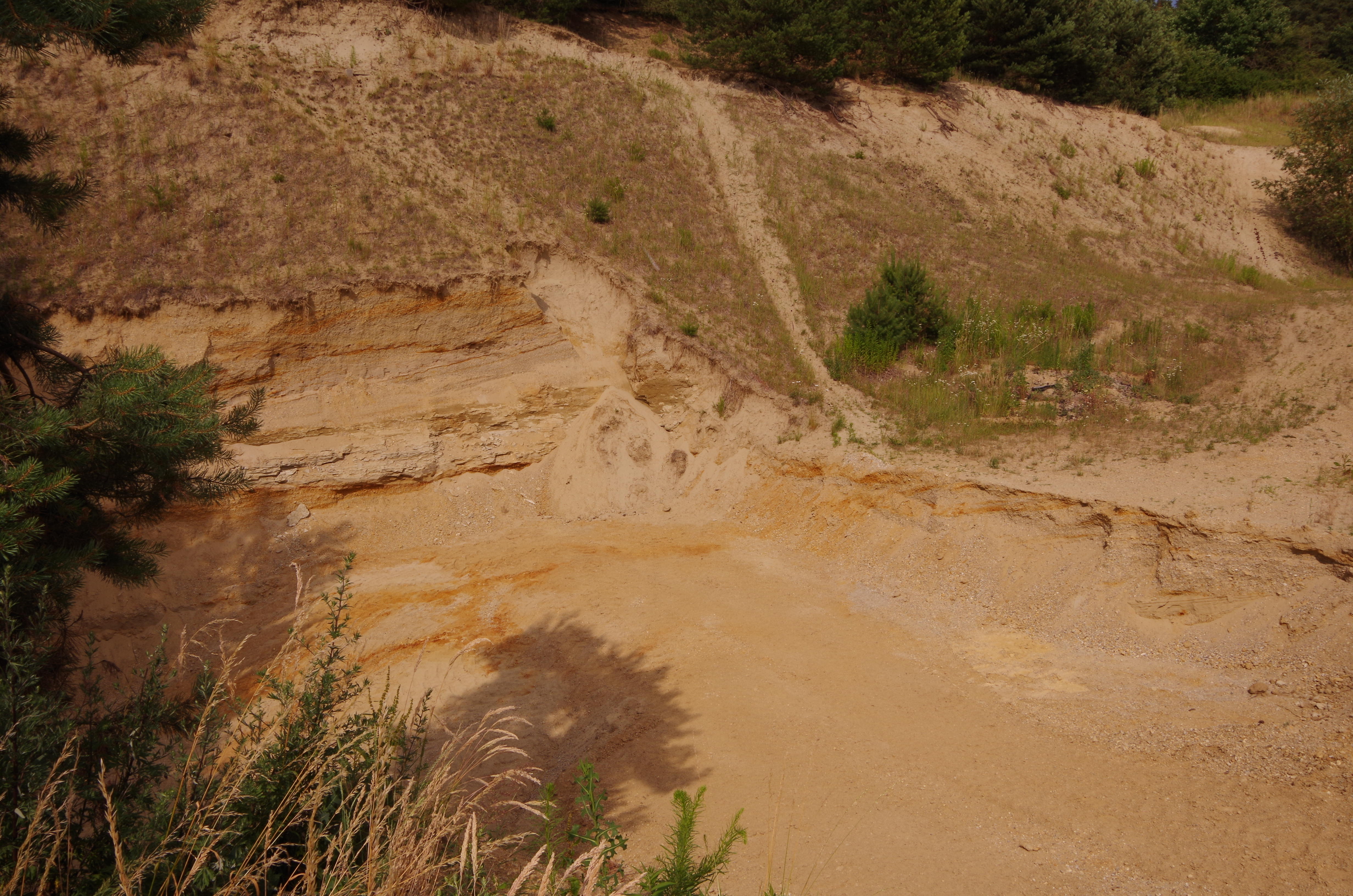 Sand pit east of Streitdorf, County Pfaffenhofen a. d. Ilm, Germany.